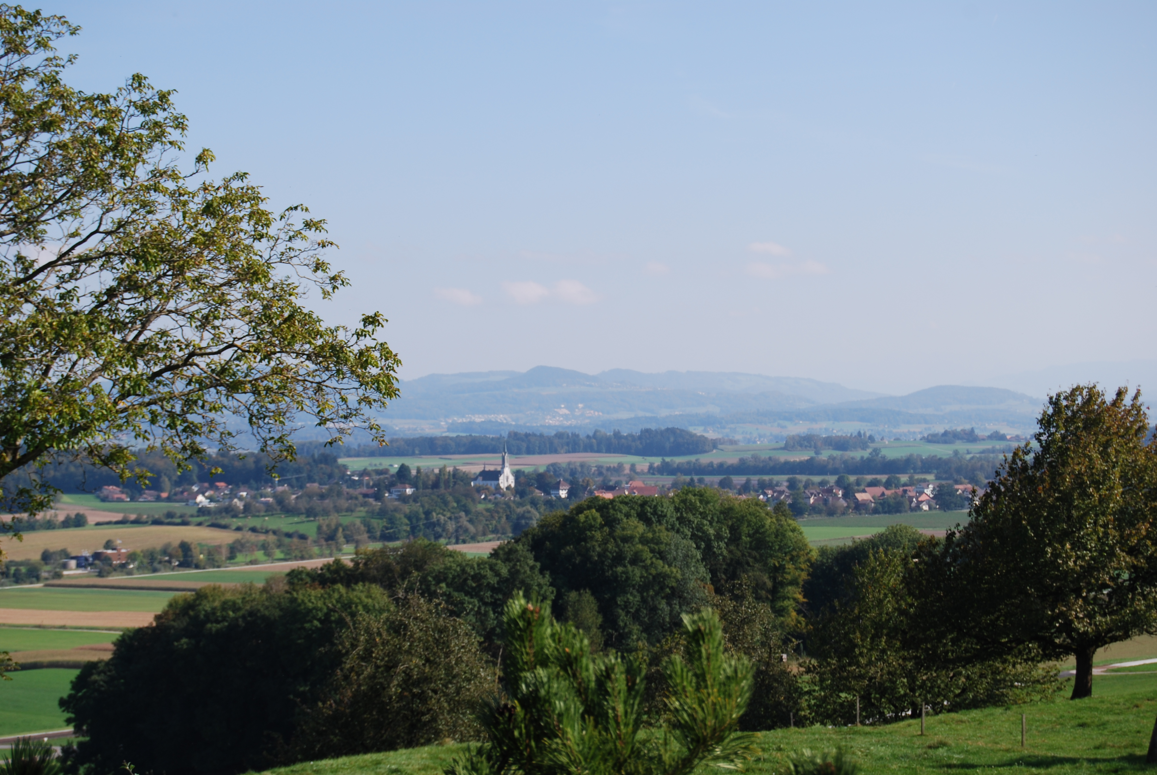 Bünzen, seen from Restaurant Jäger-Stübli at Kallern, canton of Aargau, SwitzerlandEsperanto: Bünzen vidita de la restoracio Jäger-Stübli en Kallern, Kantono Argovio, Svislando